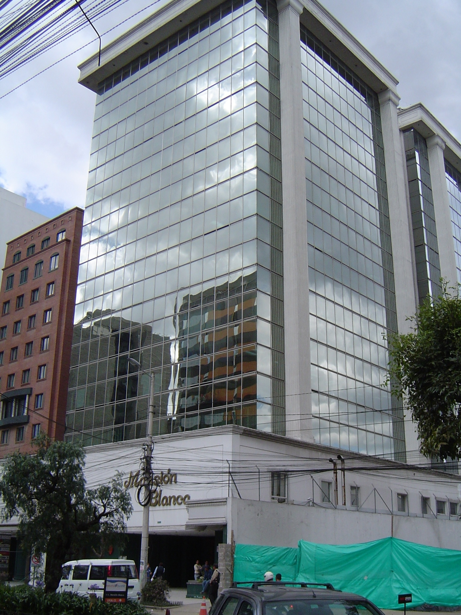 Mansión Blanca Building, 1082 Avenida República del Salvador Quito, Ecuador